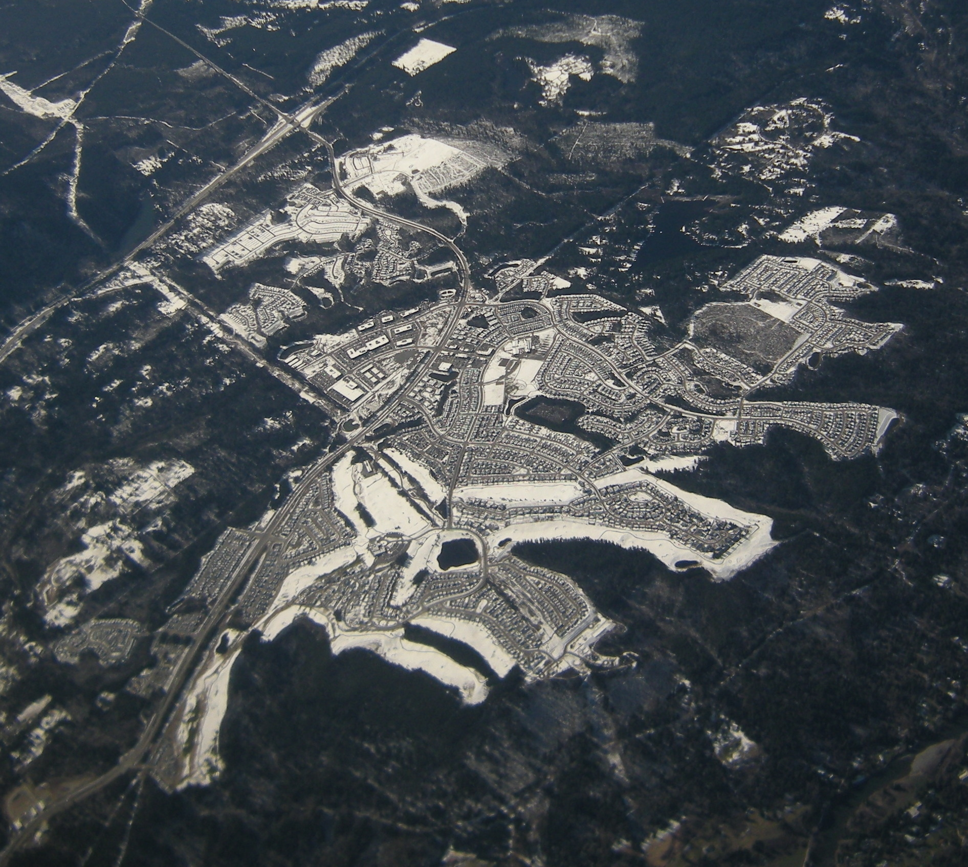 Aerial photo of the Snoqualmie Ridge development, Snoqualmie, Washington, USA, with snow on the ground. Snoqualmie Ridge is a planned community. North is roughly at the lower right.